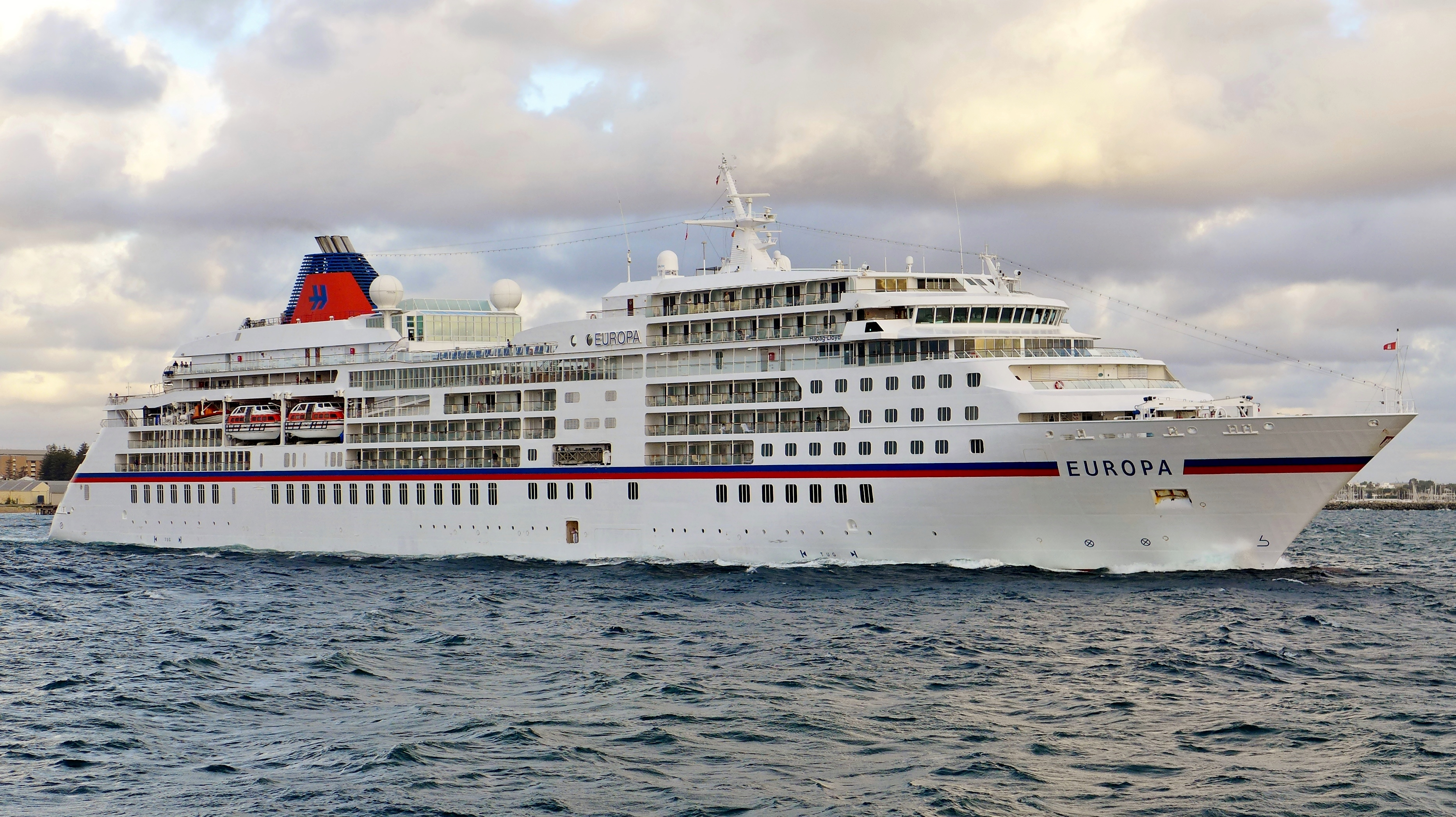 Cruise ship MS Europa departing from the inner harbour of the Port of Fremantle, Western Australia, on cruise EUR1803, "Between the outback and marine environments in Australia's west", from Melbourne to Bali